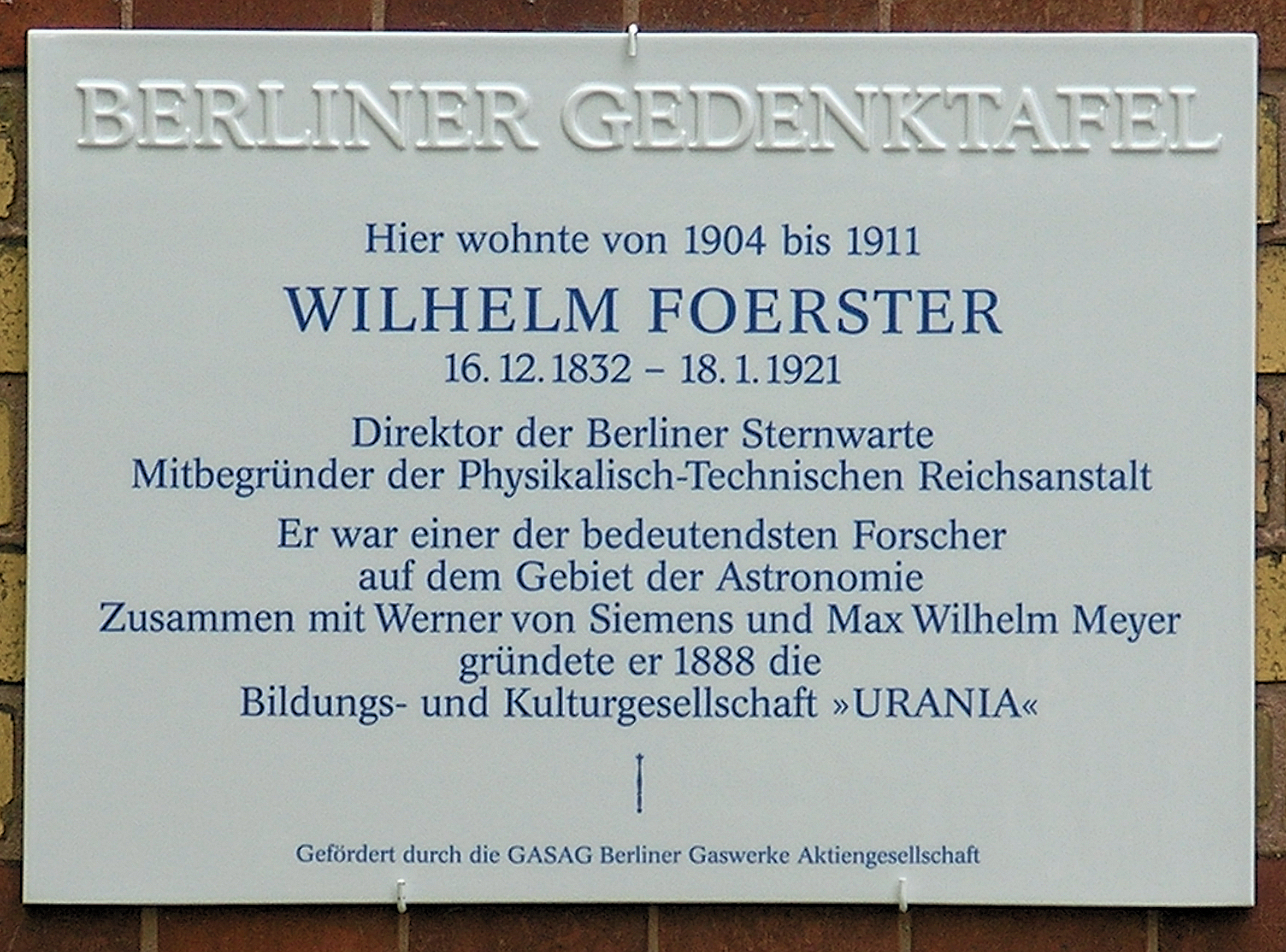 Berlin memorial plaque, Wilhelm Julius Foerster, Ahornallee 32, Berlin-Westend, Germany Koordinate:52°30′40″N 13°16′30″E / 52.51111°N 13.275°E